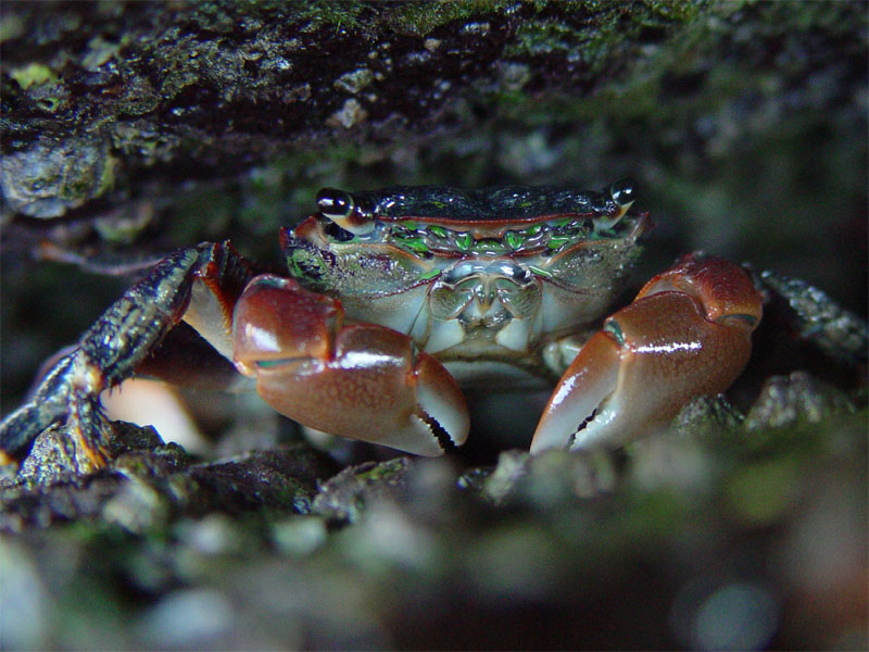 Lined Shore Crab (previously misidentified as Hemigrapsus nudus)